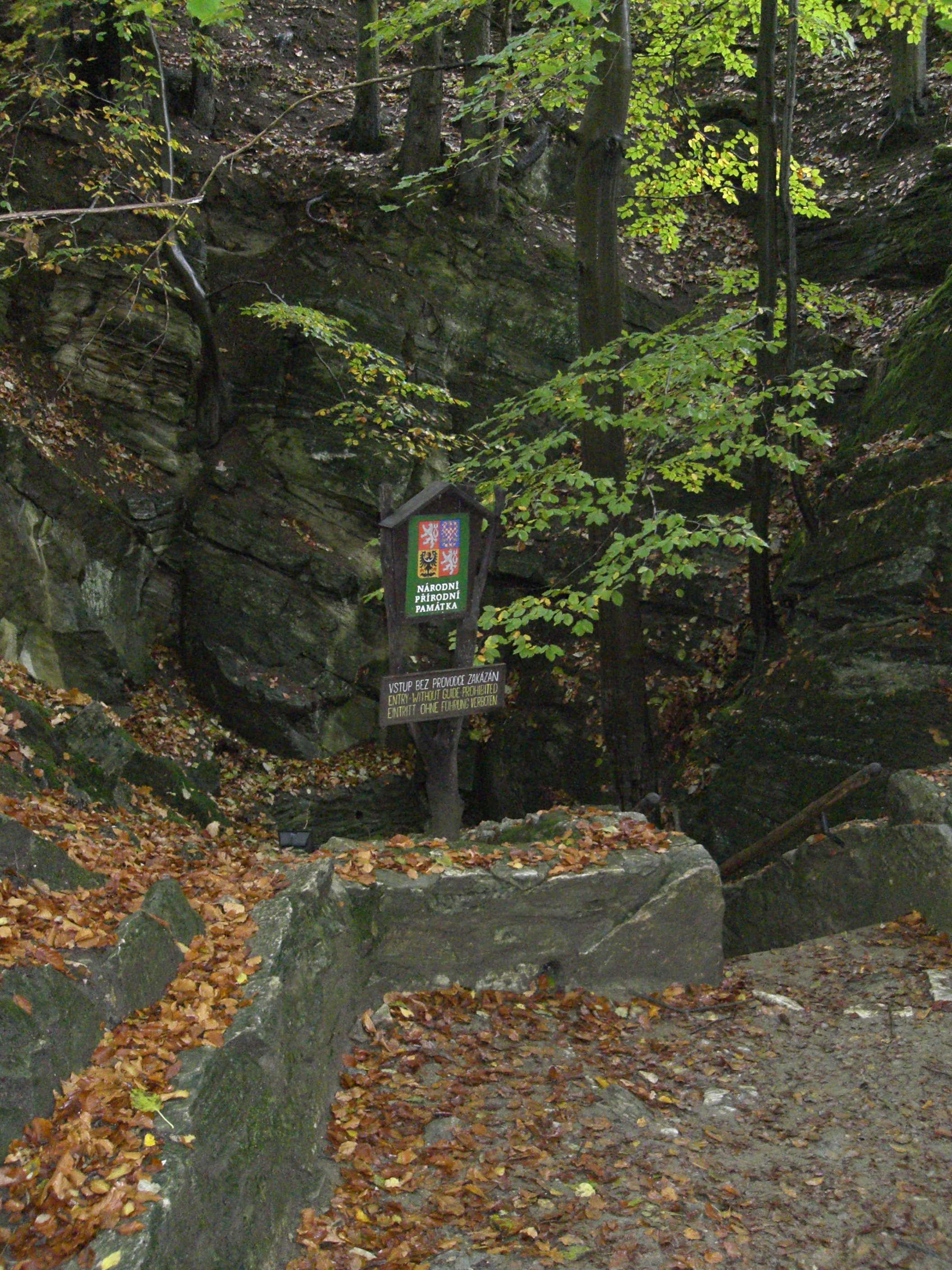 Chýnov's cave entrance near Chýnov village, Czech Republic 49°25′48.39″N 14°49′58.07″E / 49.4301083°N 14.8327972°E